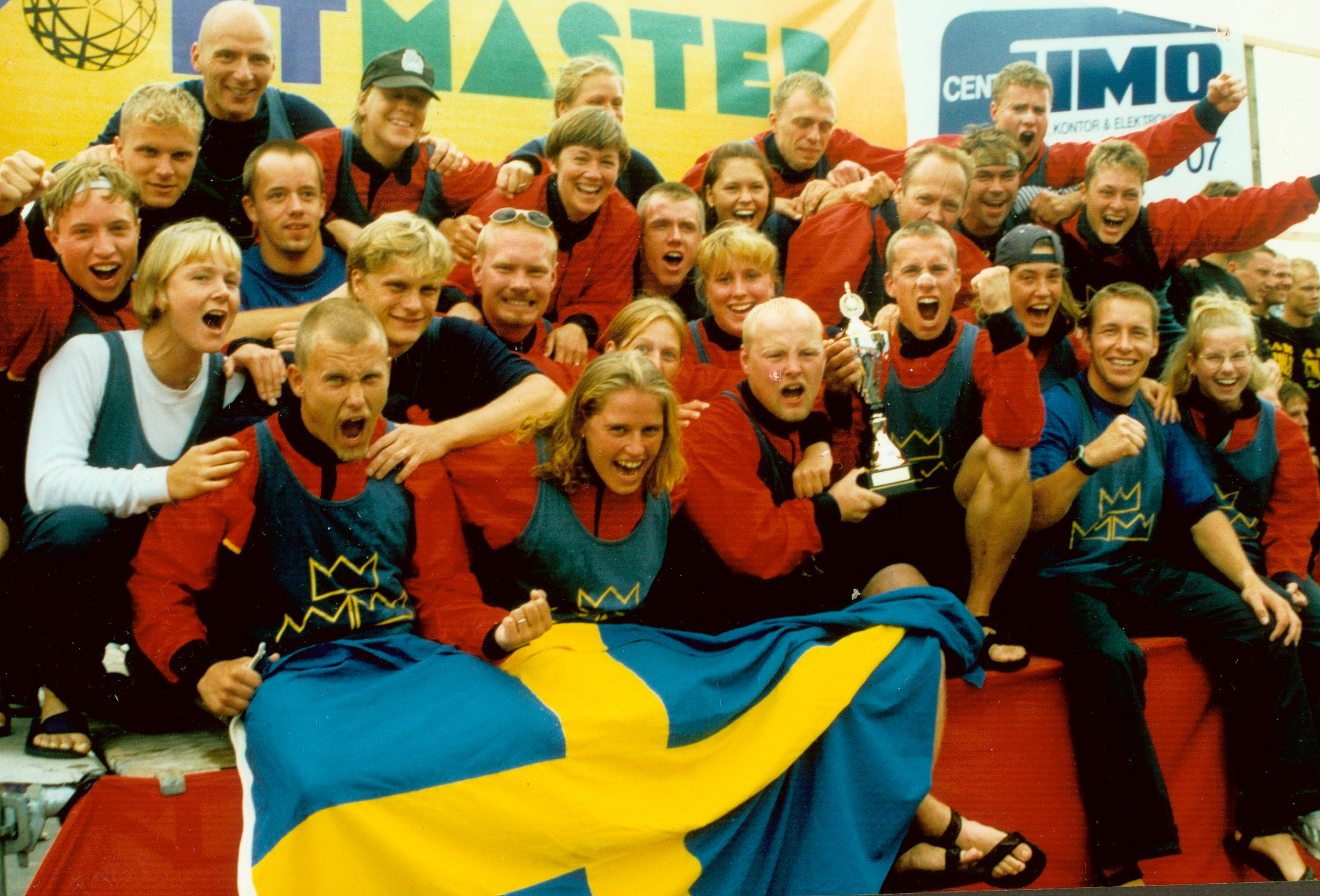 (Swedish National Dragon Boat Team at the EDBF European Dragon Boat Championships in Silkeborg, Denmark 1996. Mixed 500 meter)